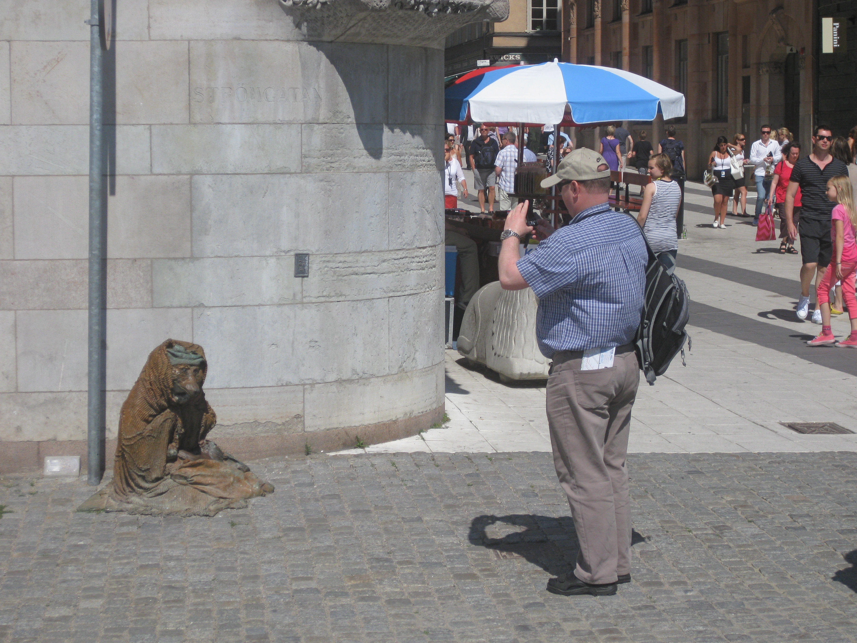 The sculpture "Rag and Bone with blanket" (Swedish: Hemlös räv) by Laura Ford at the turist and shoppning street Drottninggatan in Stockholm.